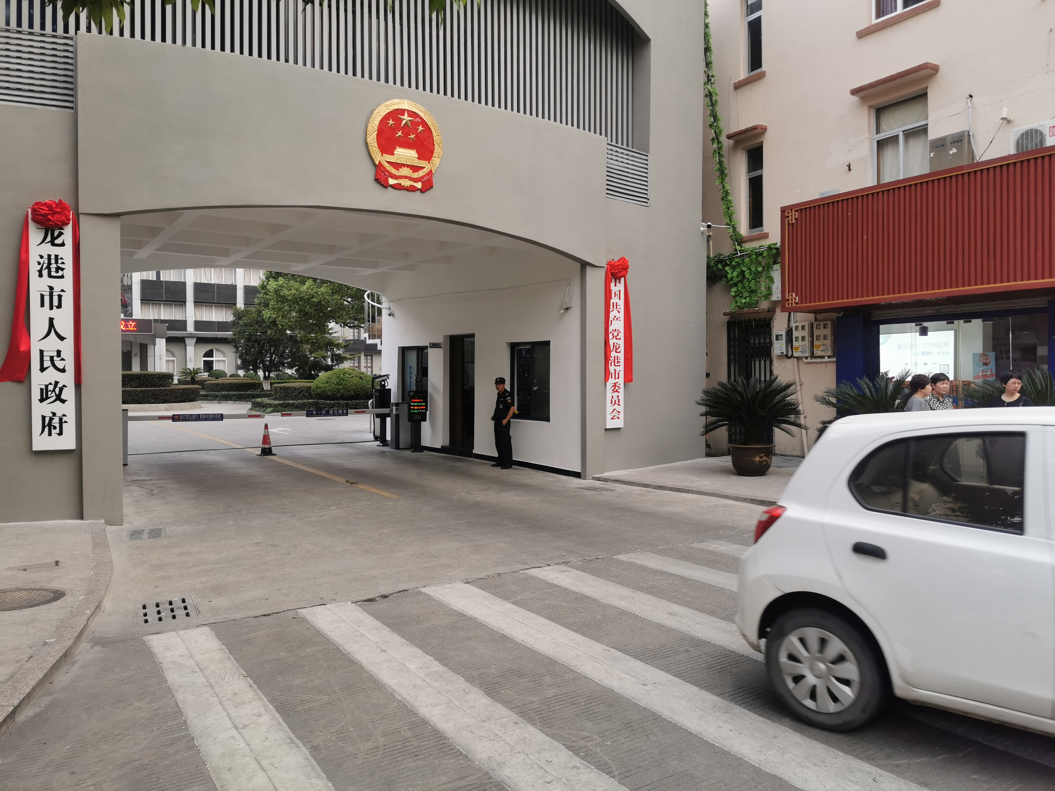 Longgang city government,2019.09.29.